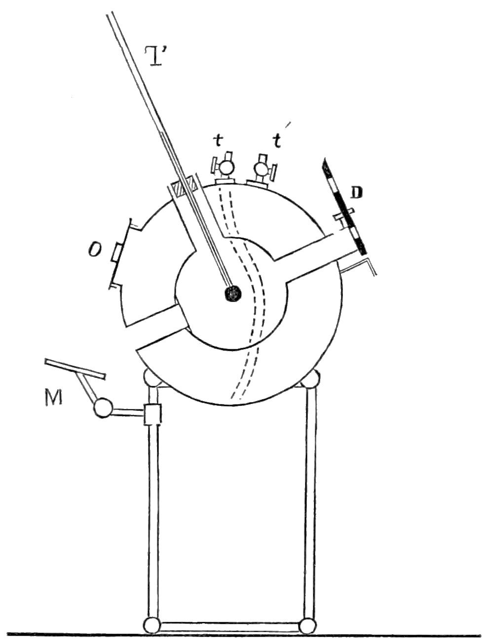 The Violle actinometer